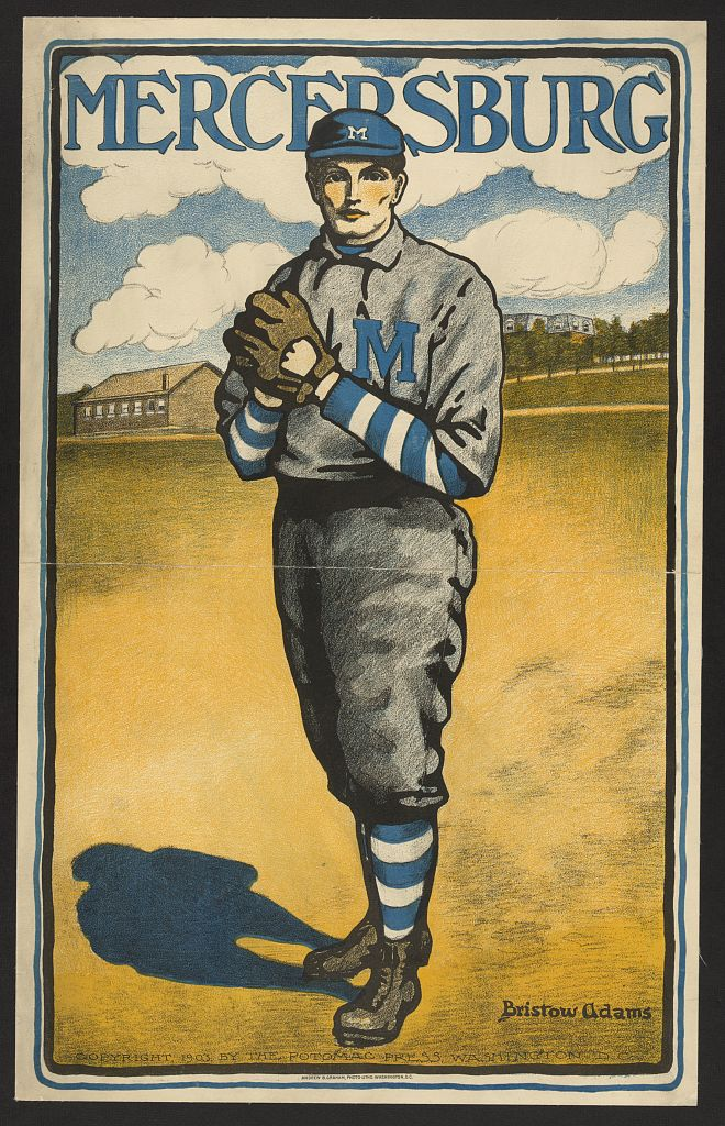 Mercersburg baseball player, full-length, standing on field, facing front.